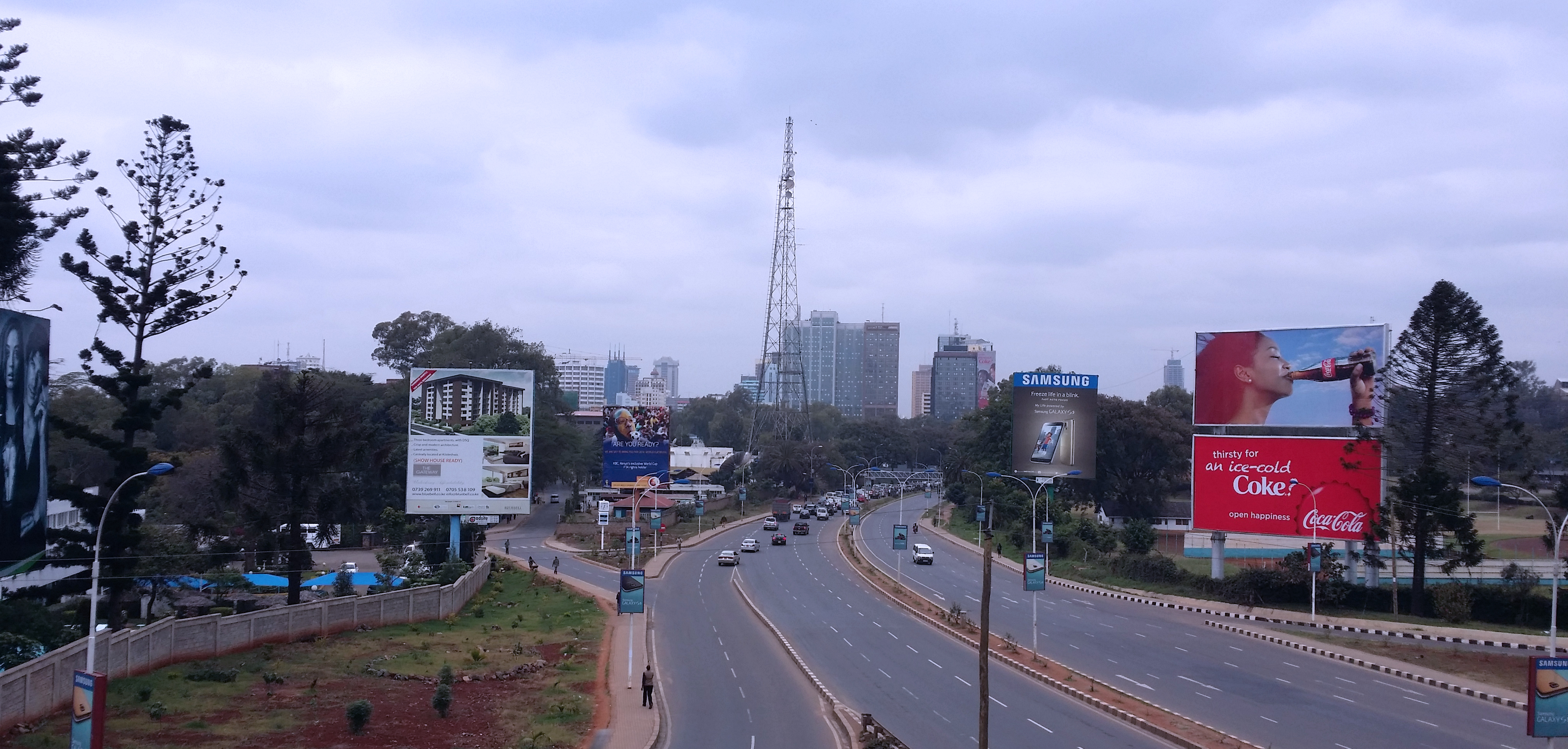 The A104 heading to Nairobi CBD Kiswahili: Barabara ya A104 ikielekea CBD